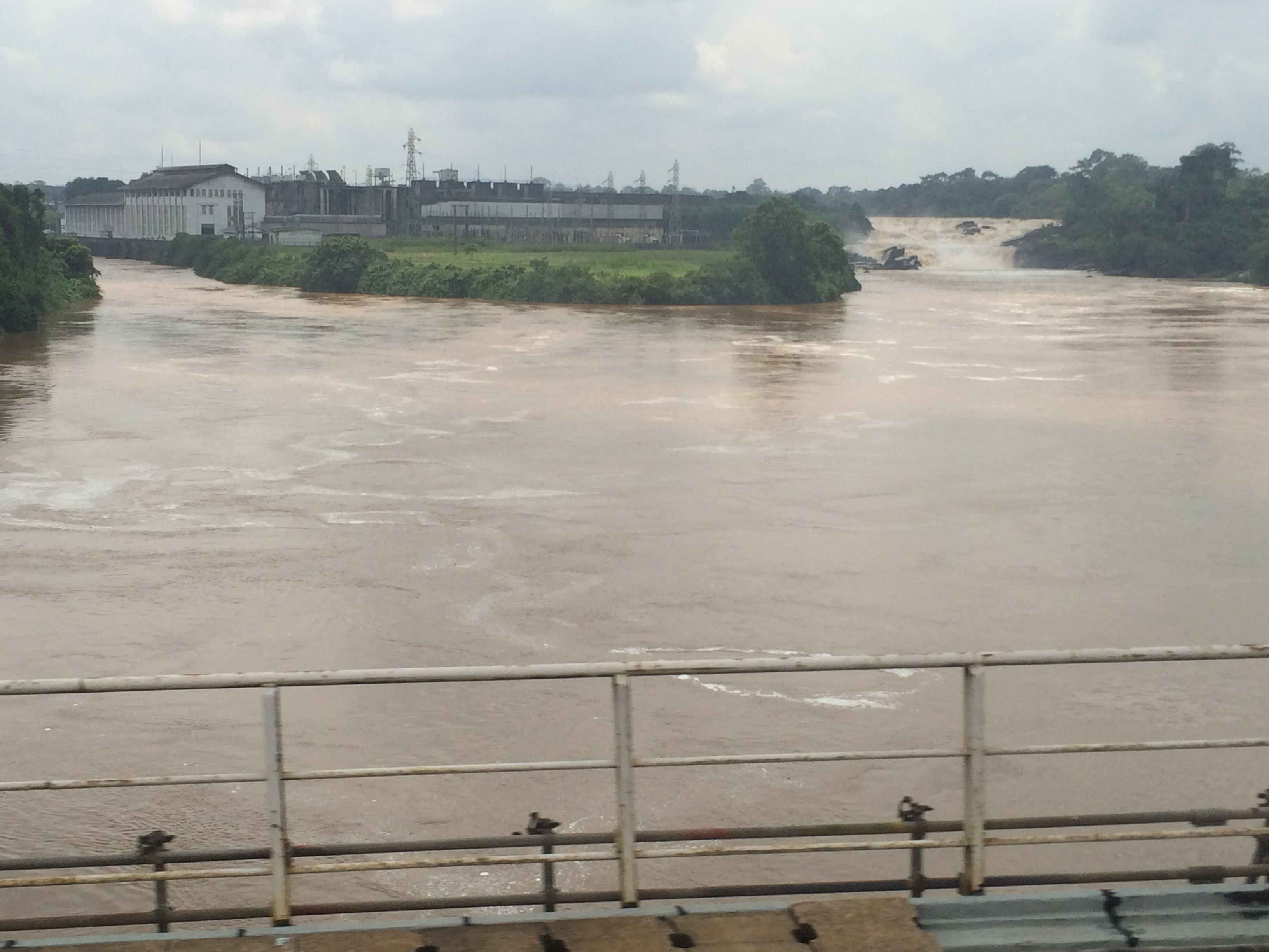 picture of River Sanaga in Edea, Littoral Region, Cameroon